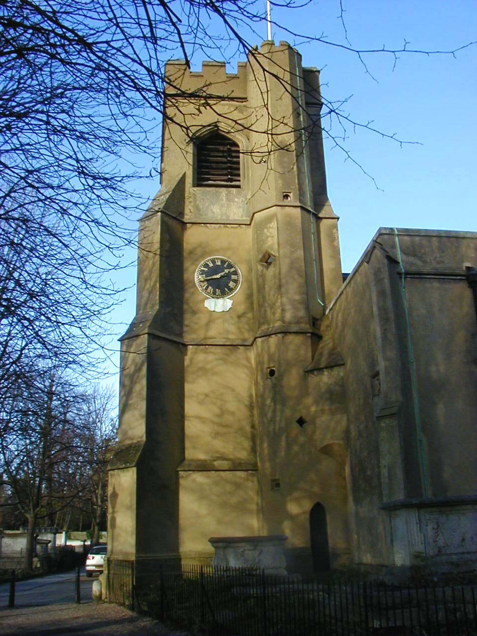 The tower of St Mary the Virgin, Walthamstow, London. The majority of the tower was built in the 15th century, the top floor and the turret were constructed in the 16th century.